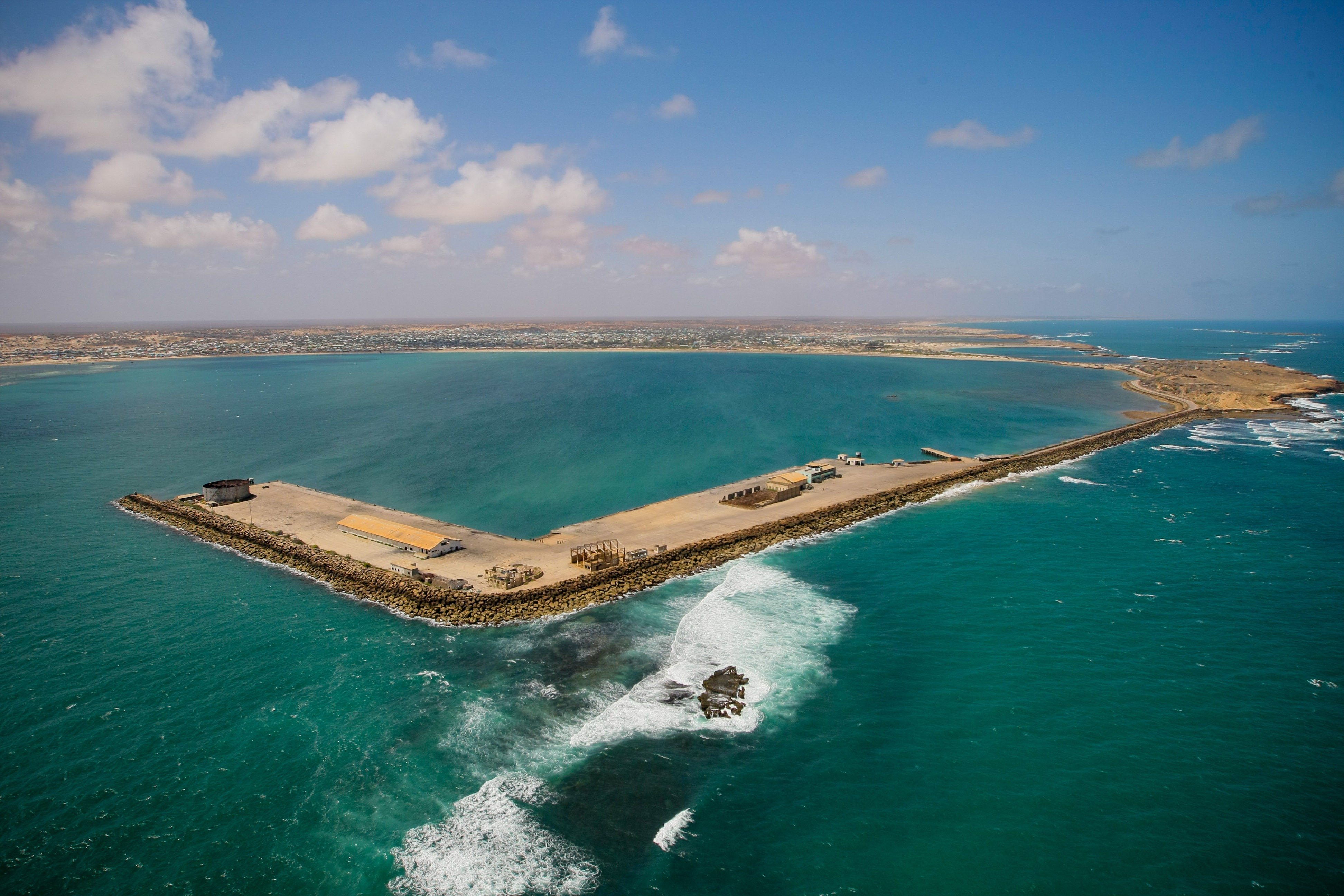 Panoramic aerial view shot from over the Indian Ocean of the seaport of the southern Somali city of Kismayo, 04 October 2012. The last bastion of the once feared Al-Qaeda-affiliated extremist group Al Shabaab, Kismayo fell after troops of the Somali National Army (SNA) and the pro-government Ras Kimboni Brigade supported by the Kenyan Contigent of the African Union Mission in Somalia (AMISOM) entered the port city on 02 October following a two month operation across southern Somalia which saw the liberation of villages and centres along a distance of 120km from Afmadow to Kismayo. AU-UN IST PHOTO / STUART PRICE.